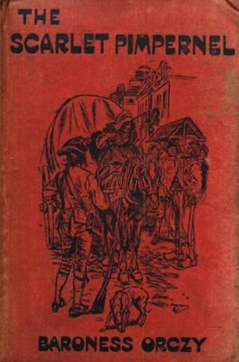 Cover of the 1908 edition